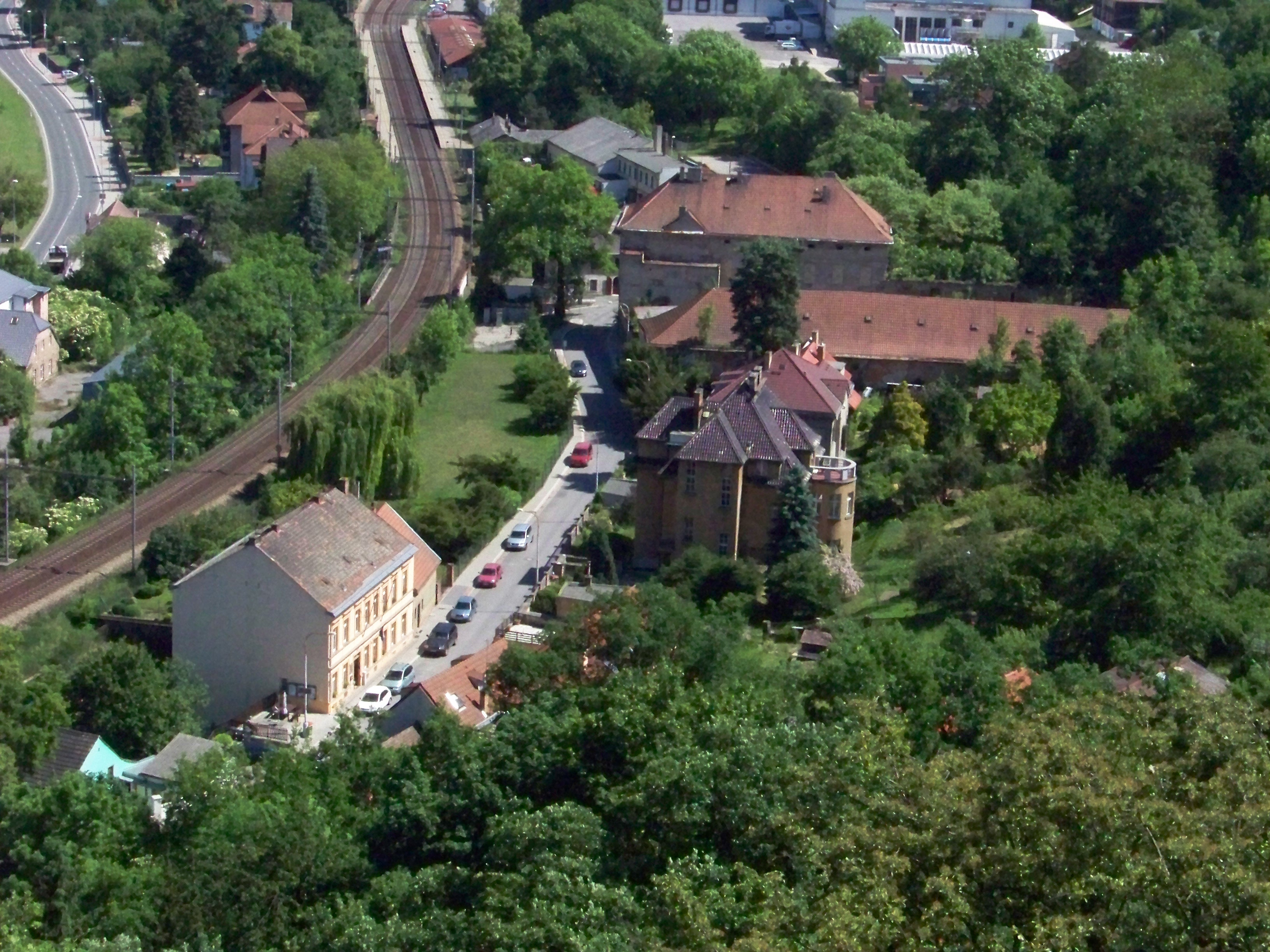 Prague-Sedlec, the Czech Republic. Train stop Praha-Sedlec and V Sedlci street seen from Sedlec Rocks.